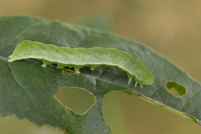 Xestia c-nigrum from Commanster, Belgian High Ardennes .